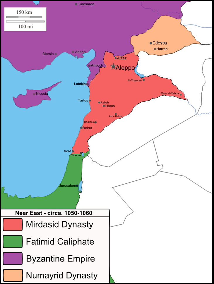 A map of Near East, circa 1050-1060, showing The Midrasid and Numayrid Dynasty, near The Byzantine Empire and The Fatimid Caliphate.